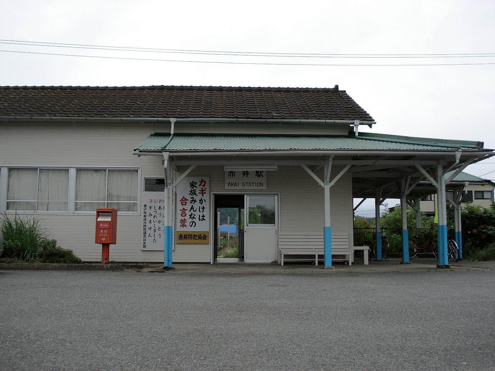 Akai Station on East Ban'etsu Line in Iwaki city, Fukushima Prefecture, Japan